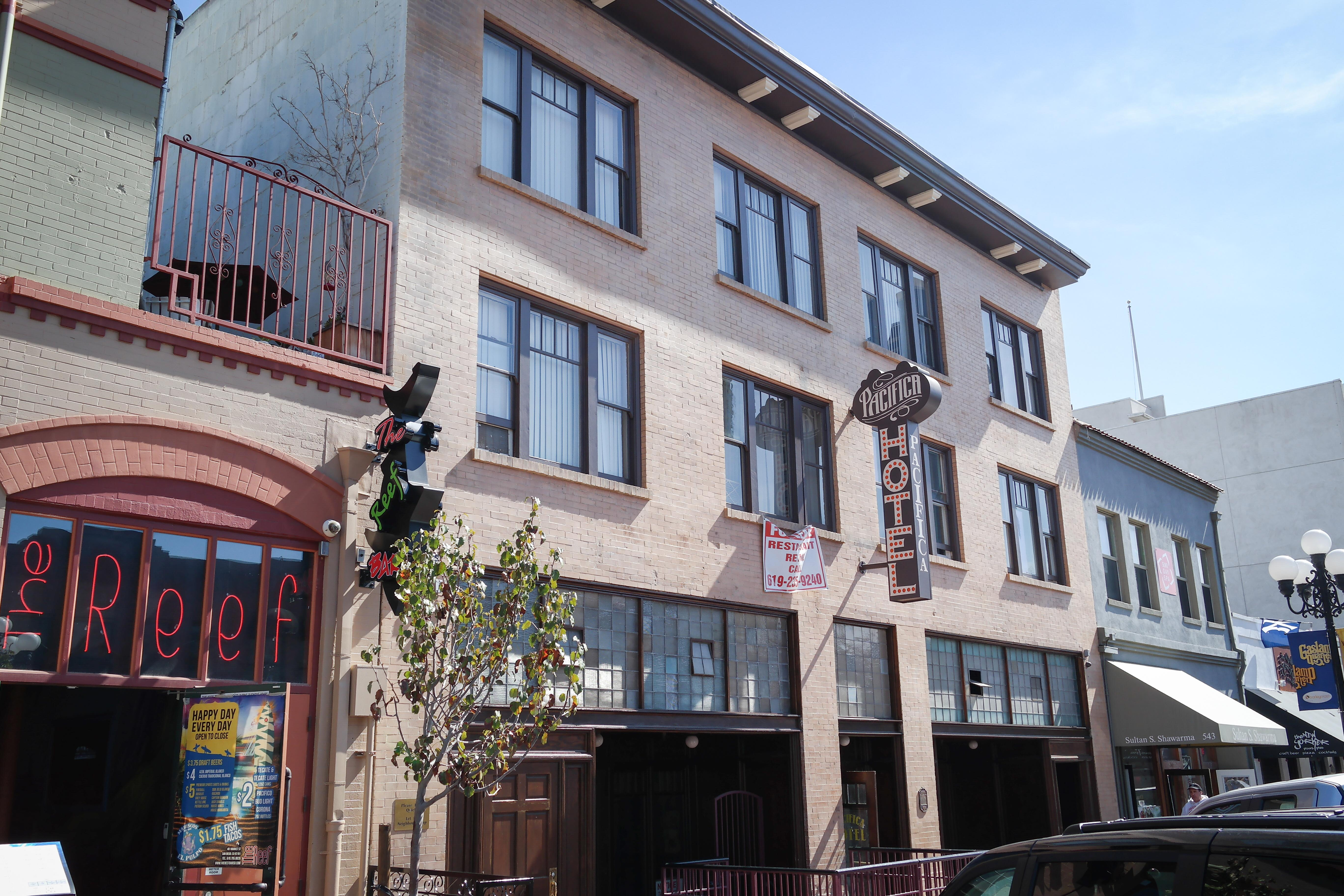 Historic Building Survey plaque: "4 Pacifica Hotel, 1910. This building has been the home to several hotels beginning with the Midland in 1914. Later it was known as the New York, Seery, and finally Pacifica. In the 1930's, it catered to San Diego's military personnel. From 1917 to 1928, part of the building was used as storage by several Chinese companies, and from 1925 to 1928, it housed the Pacific Dance Hall."